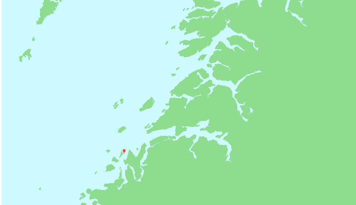 Locator map of Nordarnøya, Nordland, Norway